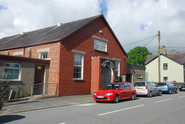 Neuadd Goffa Chwilog Memorial Hall